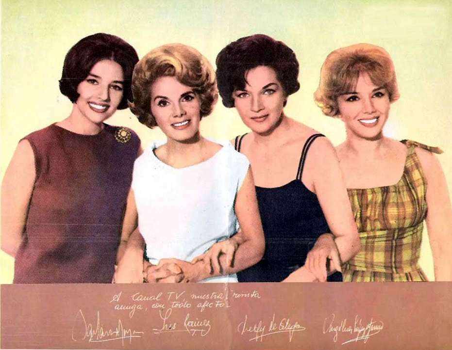 soap operas